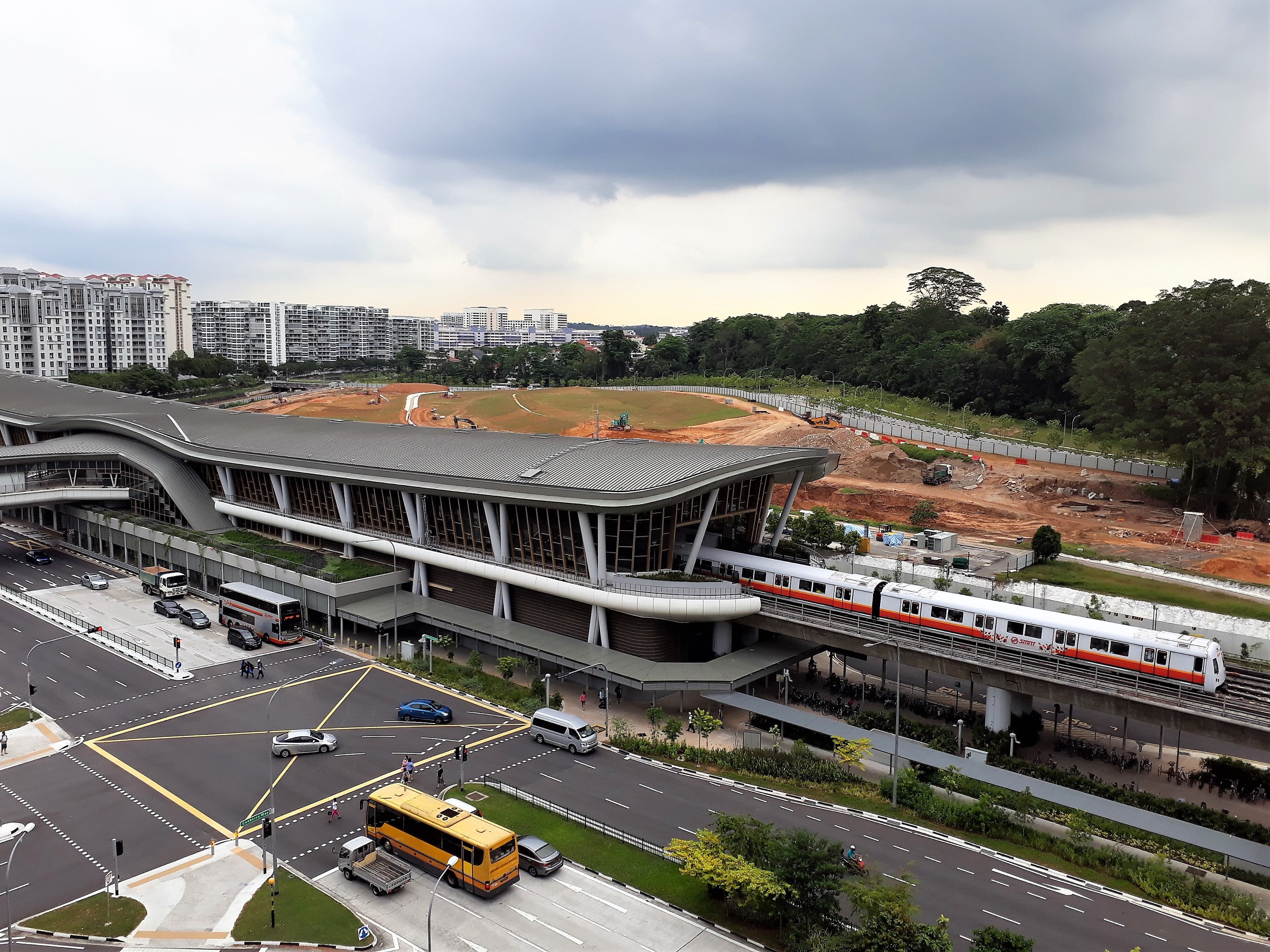 Exterior of Canberra station